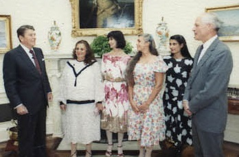 William Andreas Brown and Ronald Reagan in the Oval Office with Helen Brown, Margarita Brown, Joanna-Maria Brown and Anastasia Brown